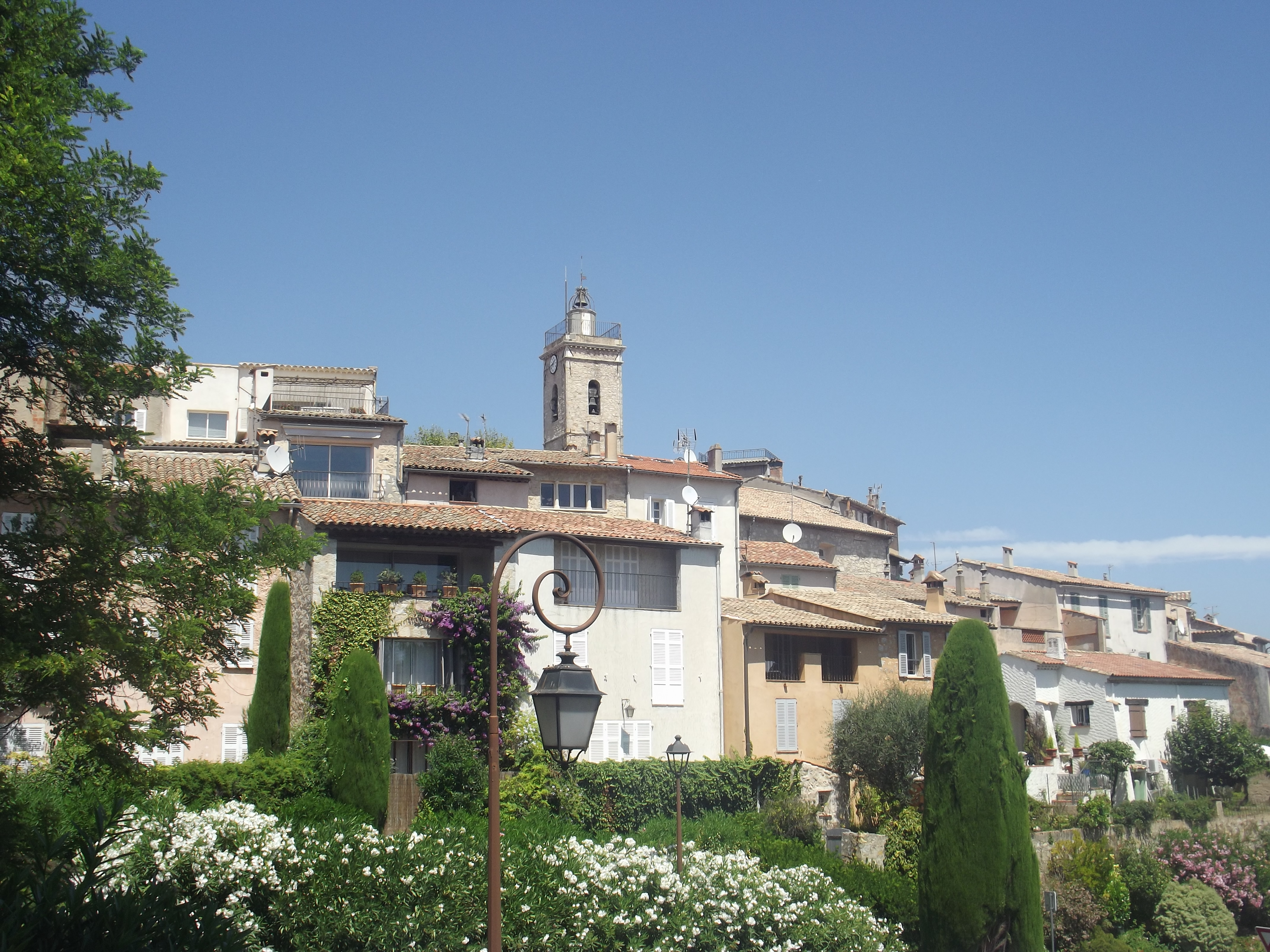 Le vieux-village de Mougins (Alpes-Maritimes)